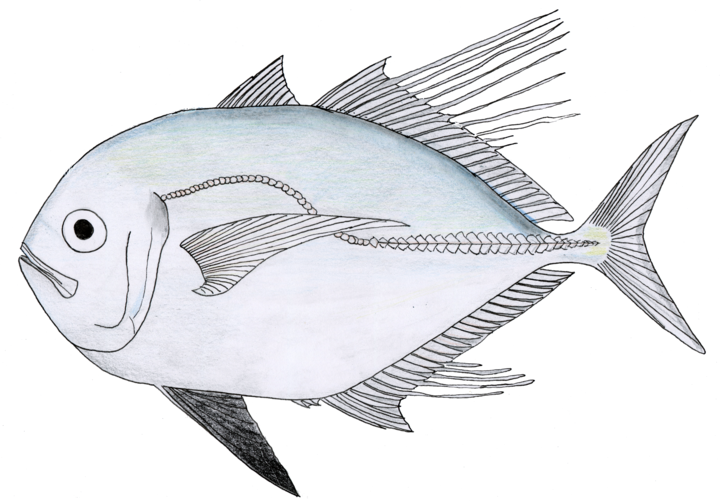 Hand drawn and coloured diagram of atropus atropos, the cleftbelly trevally. Based on Carpenter et al 2002 and fishbase photos. Note colours are life colours. Colour changes after death and storage.